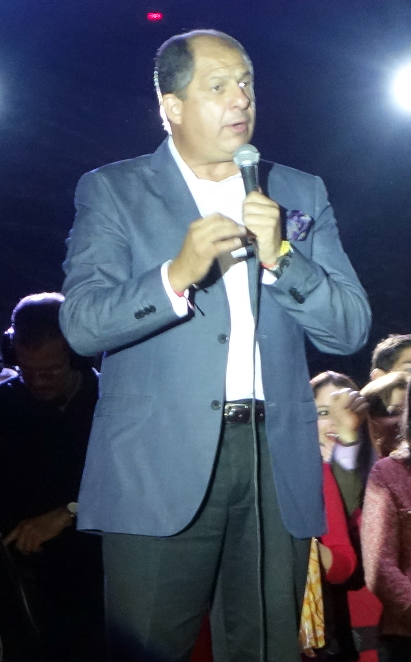 Luis Guillermo Solís giving his first speech as president-elect of Costa Rica at Plaza Roosevelt in San Pedro